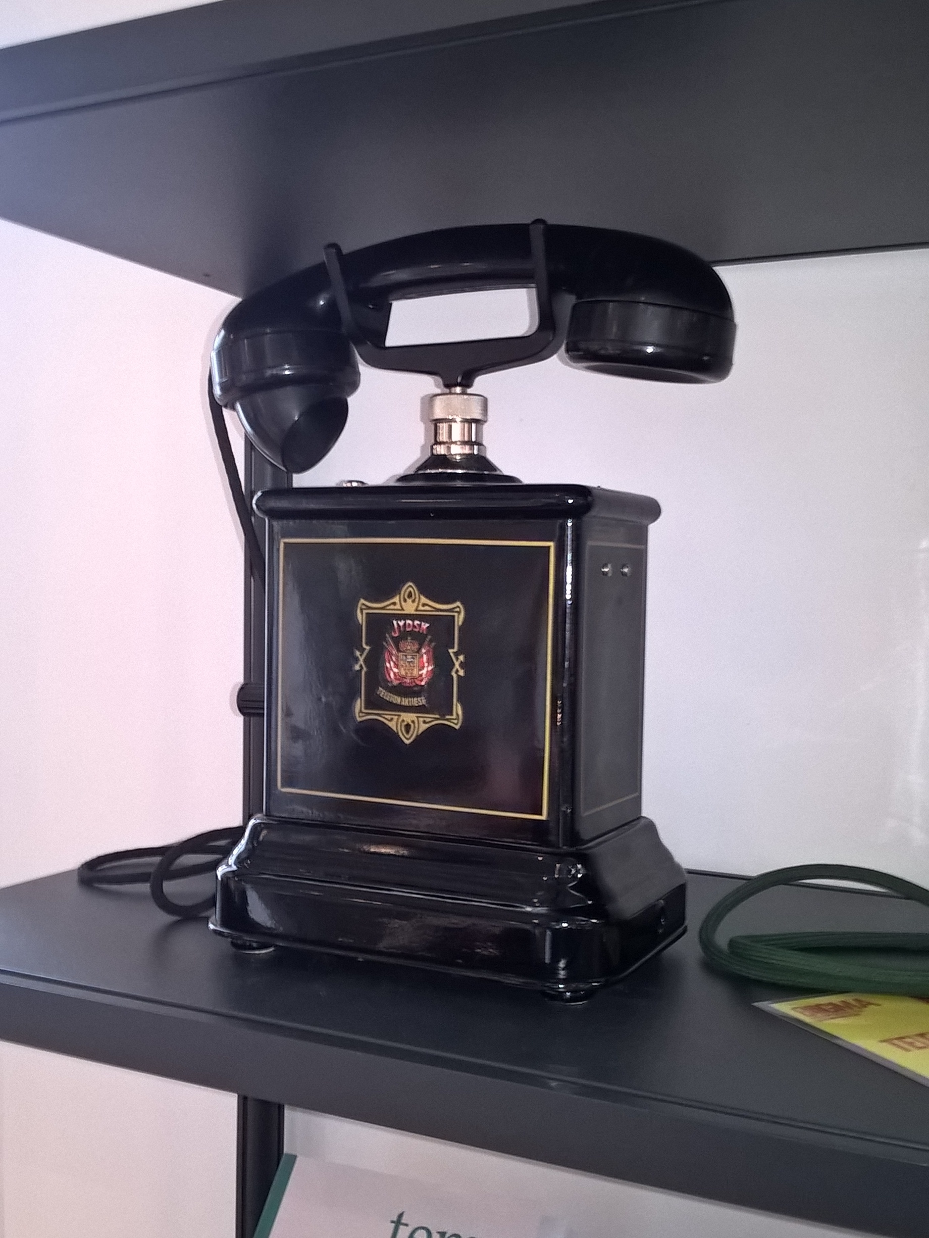 Old telephone of Jydsk Telefon displayed at the postal and communication museum Enigma in Østerbro in Copenhagen.